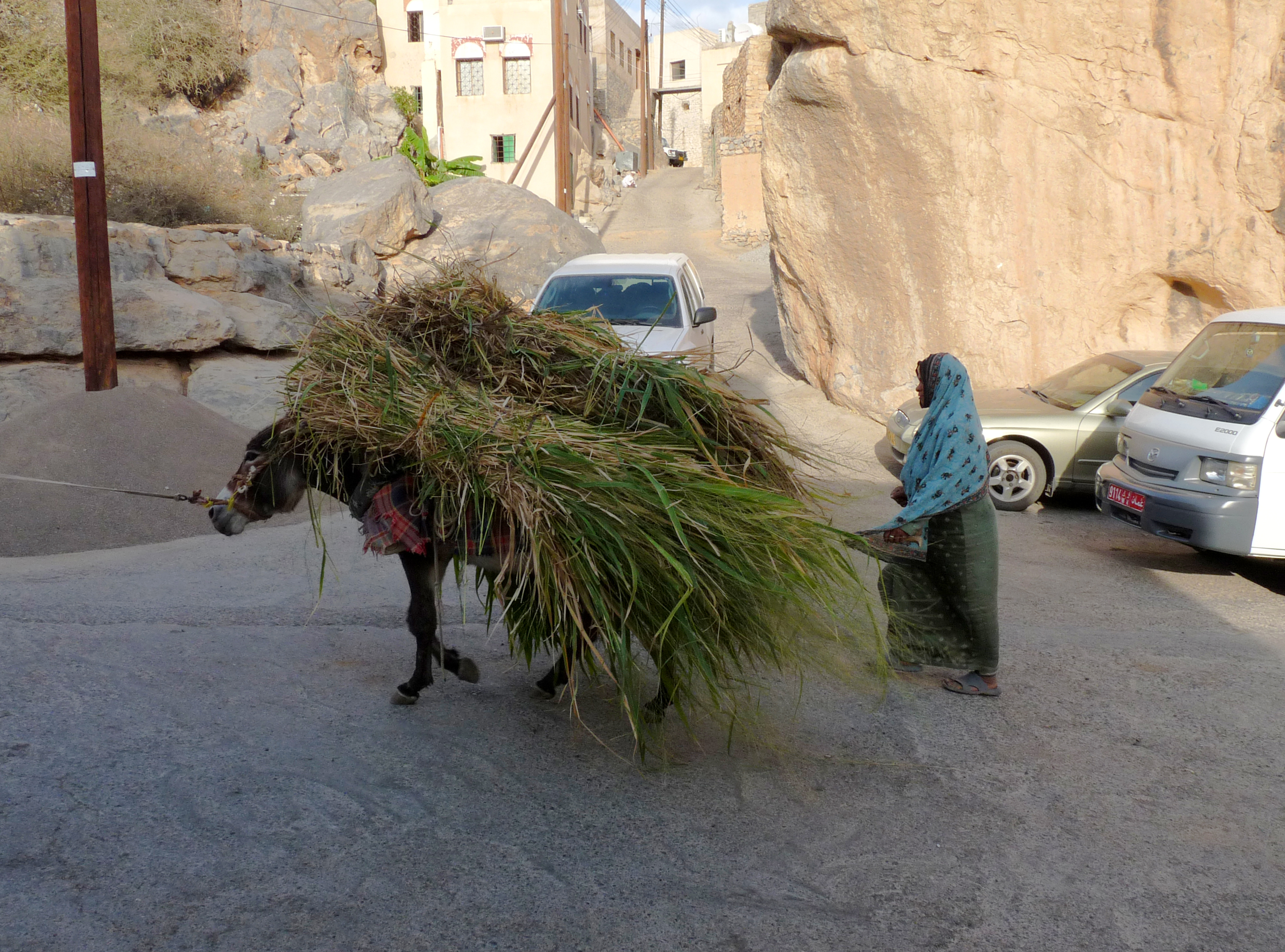 Misfah (Oman)